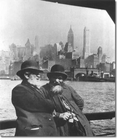 arriving to US, NY City 1920